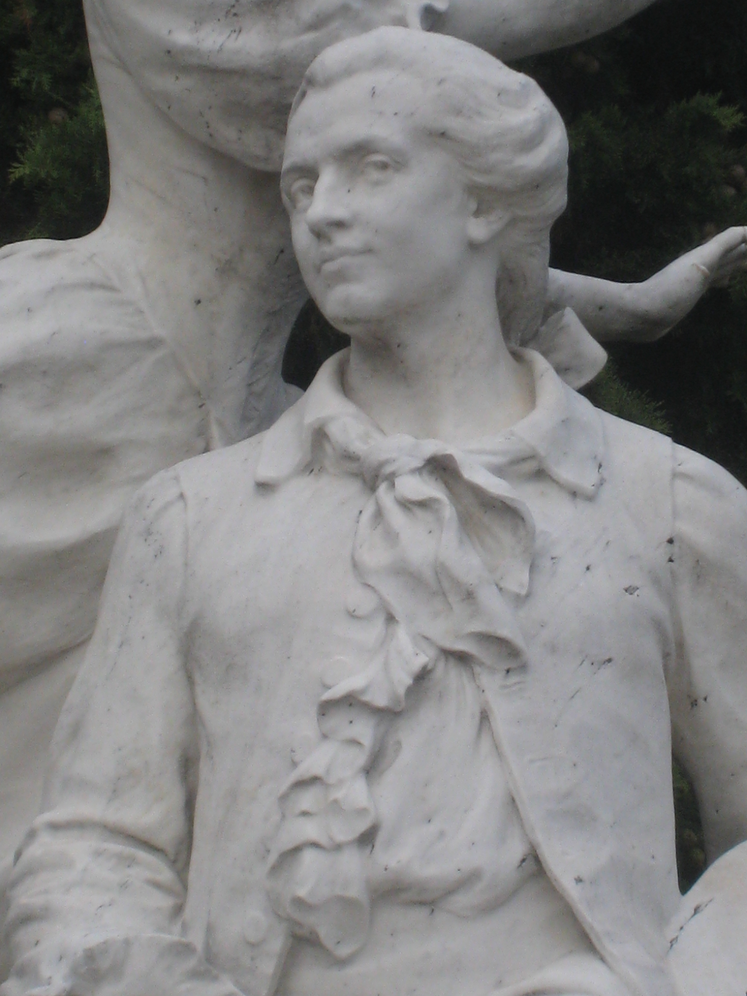 Detail of the Monument to Jean-Honoré Fragonard (1907) by Auguste Maillard (1922-1944), located in Grasse, France.